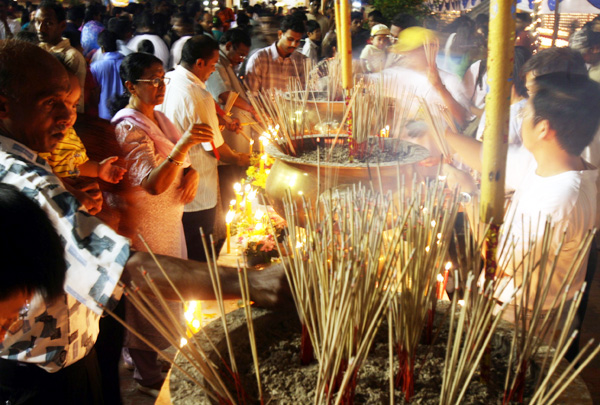 Original caption: Buddhist devotees offers incense sticks to Buddha during Wesak Day celebration at the Temple Mara Vihara, Kuala Lumpur. Wesak Day commemorates the birth of Buddha, his attaining of Enlightenment and his passing away into Nirvana. Kamal Sellehuddin/The Star